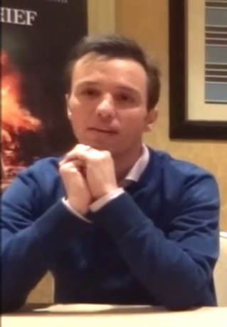 Author Markus Zusak interviewed about the film The Book Thief Video Shot & Edited By Gadi Elkon for .